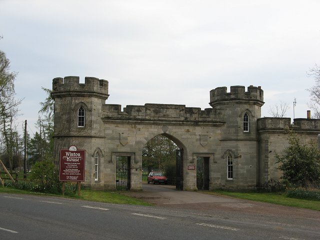 Lodge, Winton House Lodge on the northern edge of the estate.